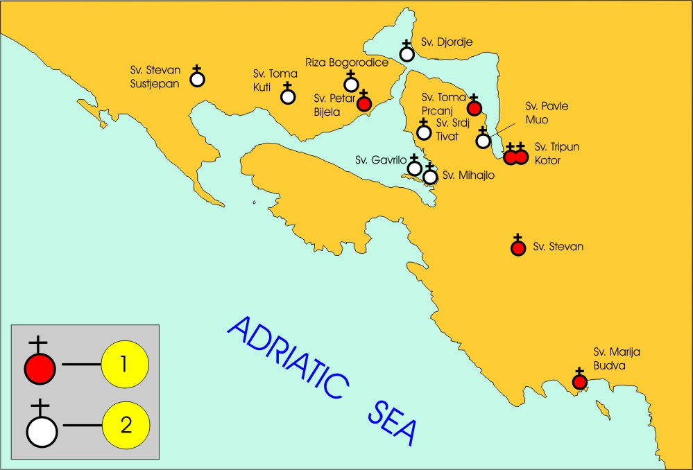 Churches in the Bay of Kotor : 1. Monuments of the ninth century ; 2. Monuments (X -th and XI -th century) .